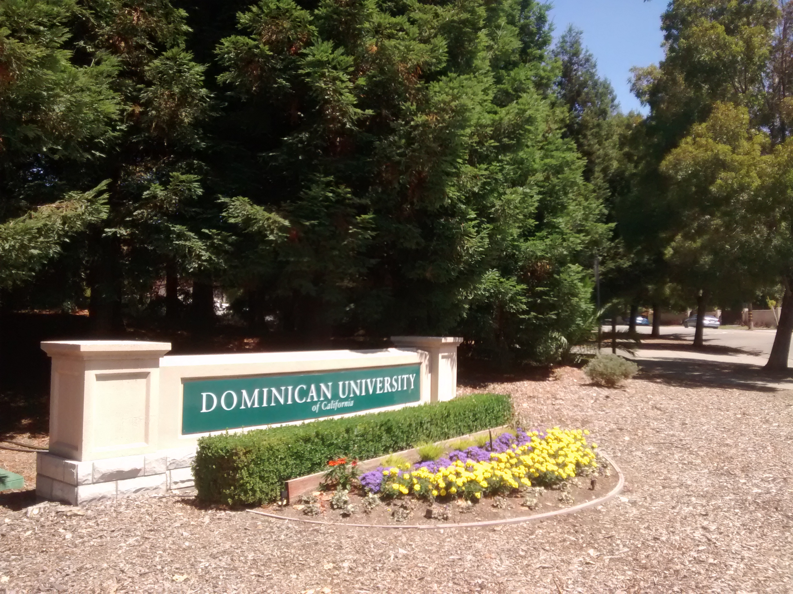 Dominican University of California sign in San Rafael, California.